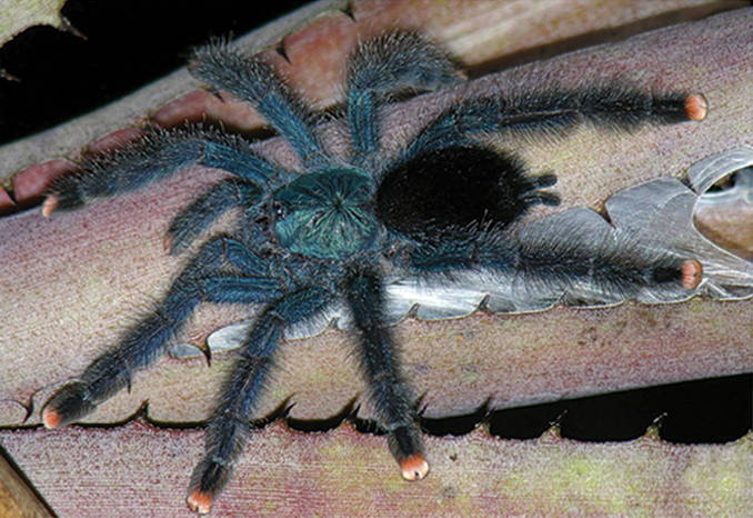 Avicularia avicularia female, morphotype 6